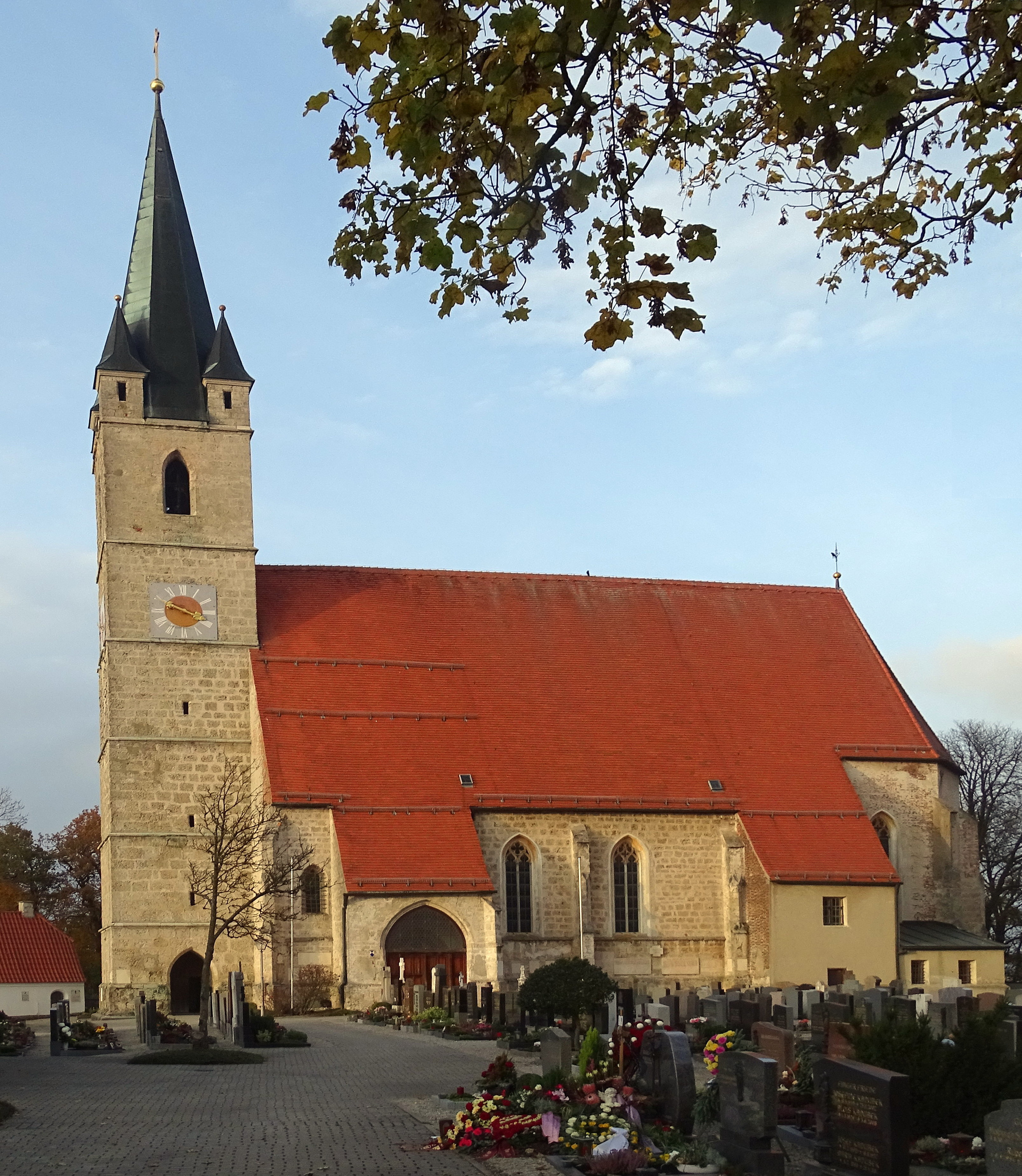 Parish church of St. Rupertus in Burgkirchen am Wald, Markt Tüßling